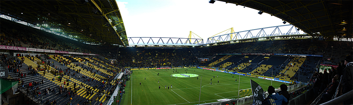 Panoramic view of the Signal Iduna Park, Dortmund.